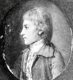 From the New-York Historical Society exhibition Alexander Hamilton: The Man Who Made Modern America, on the Timeline web page. Archived 2016-03-10 from the original[dead link]. Photo attributed to Library of Congress.